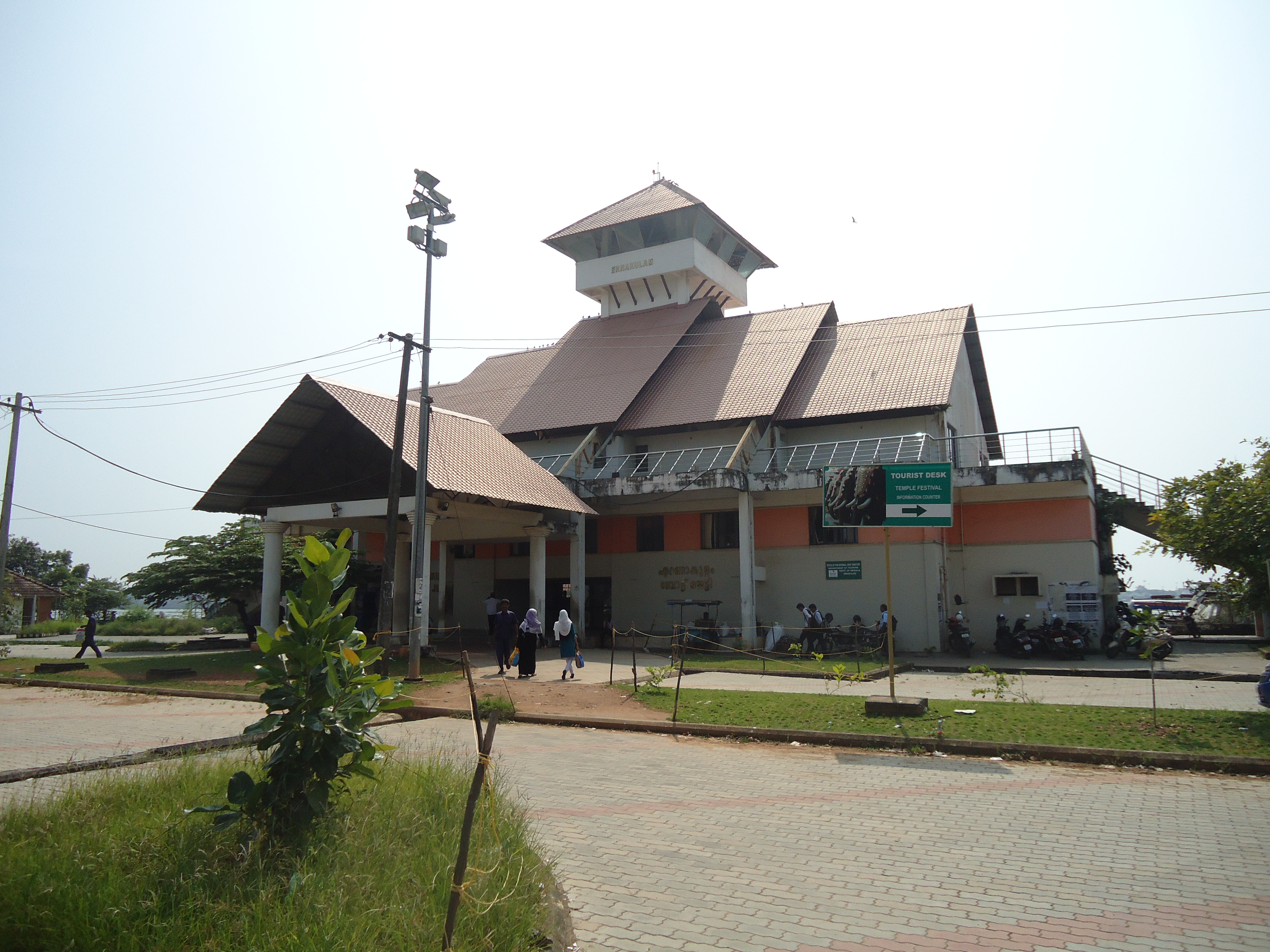 Ernakulam Boat Jetty Entrance